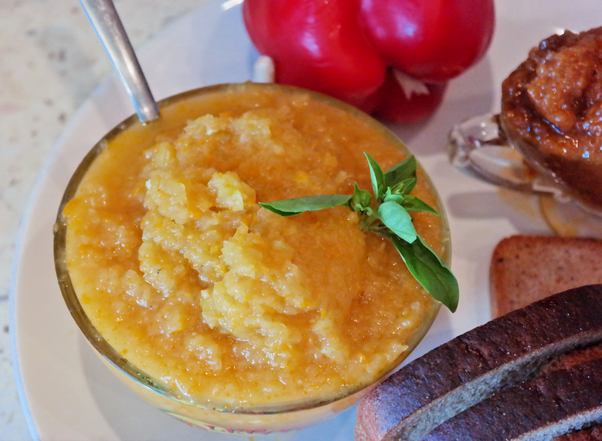 Homemade summer squash (marrow squash or zucchini / courgette) caviar